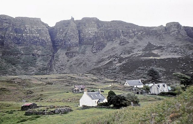 Cottages at Cleadale Cleadale, on the north west side of Eigg is probably the largest single community on the island. There is good crofting land here with volcanic soils overlying Jurassic rocks.